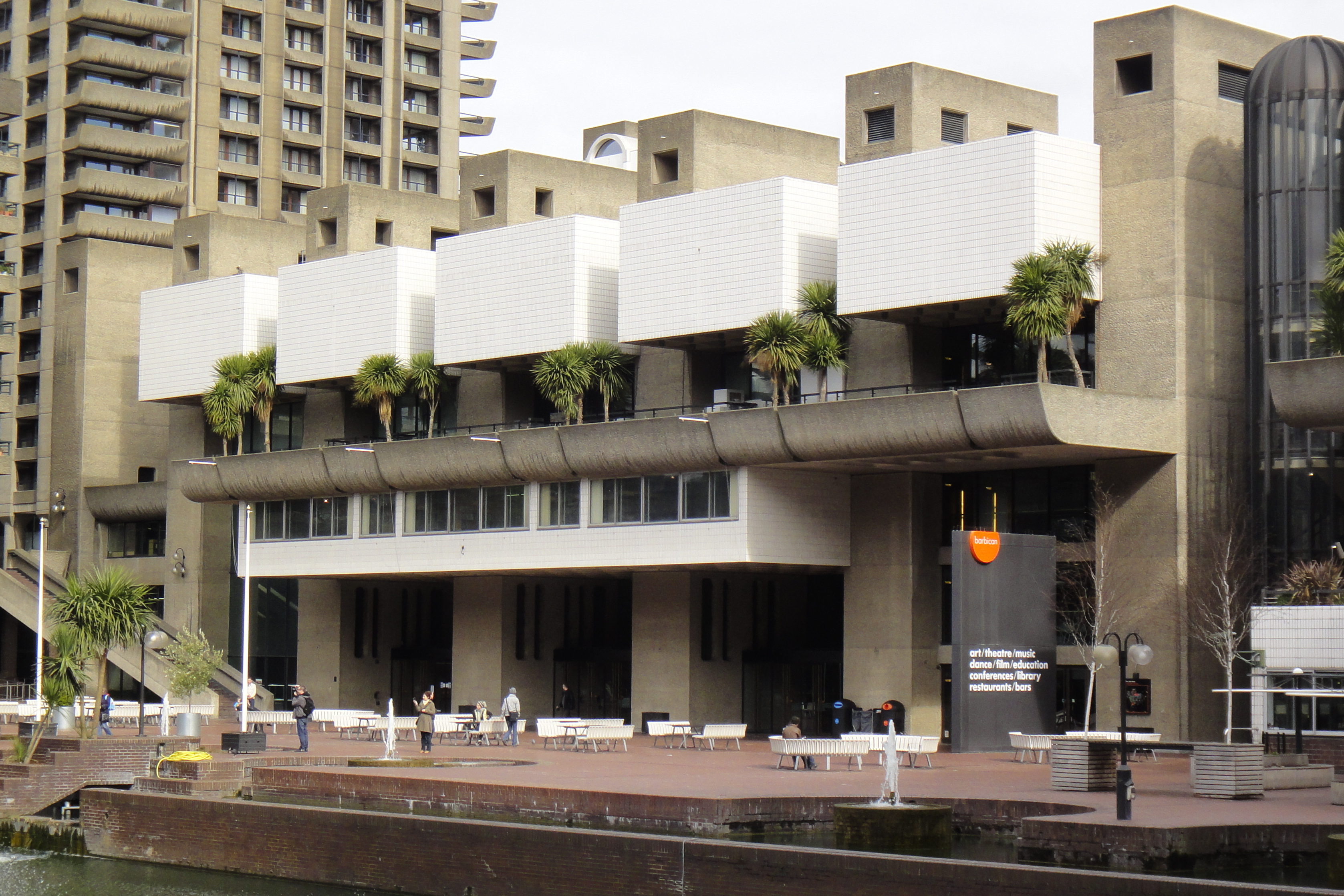 Barbican Arts Centre